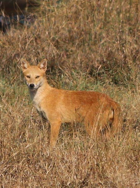 Golden Jackal or Indian Jackal, canis aureus indicus in brown colour photo taken from koottanad palakkad dt Kerala state India